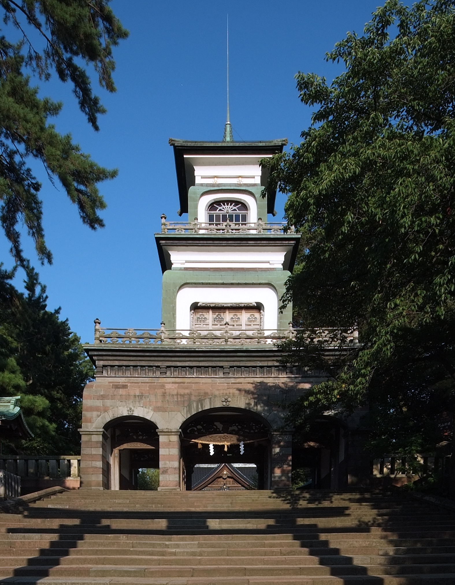 Sin-mon of Oyama jinja, Kanazawa Ishikawa Japan, built in 1874.